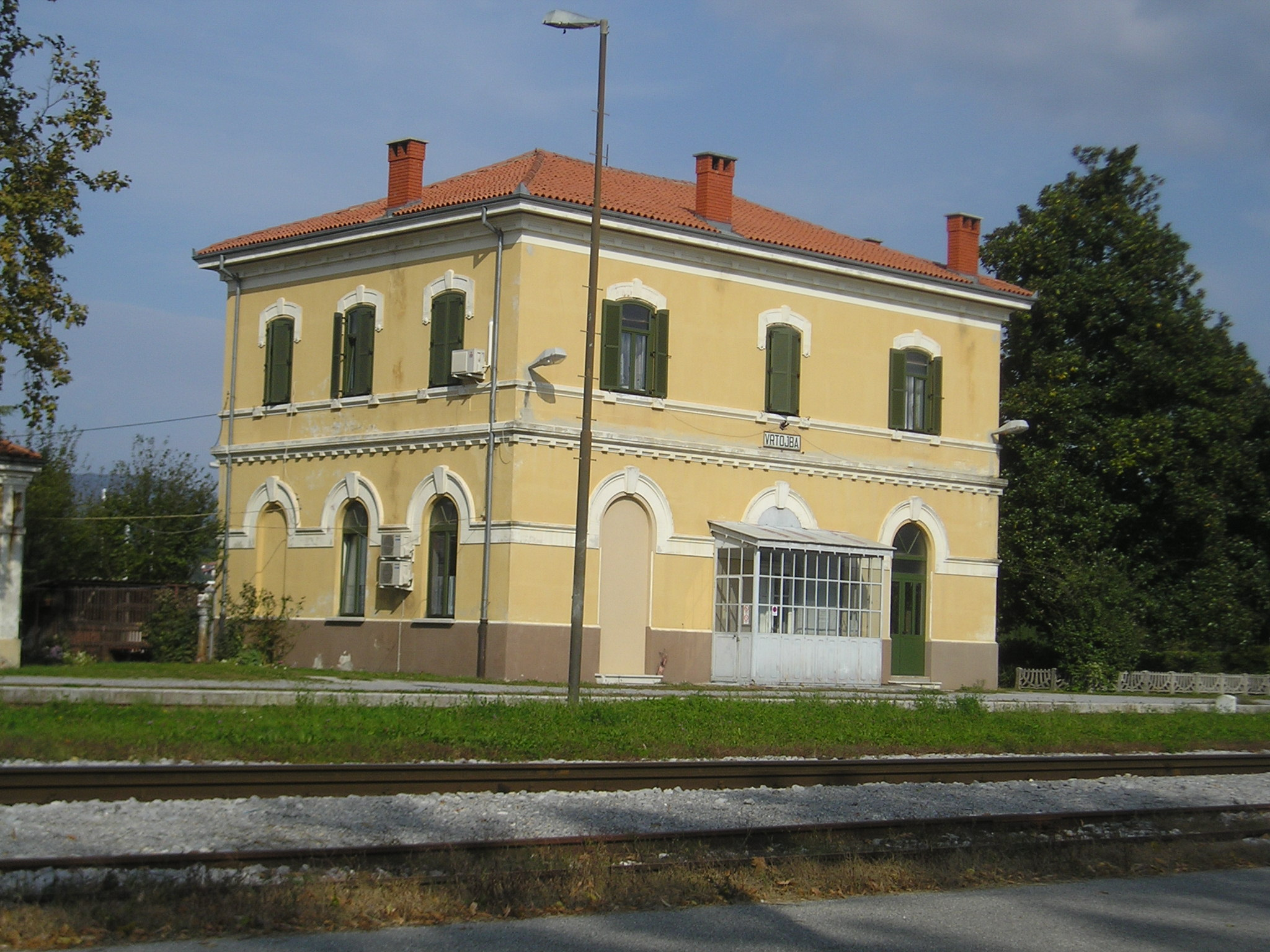 Train station Vrtojba, actually located in Šempeter pri Gorici, Slovenia